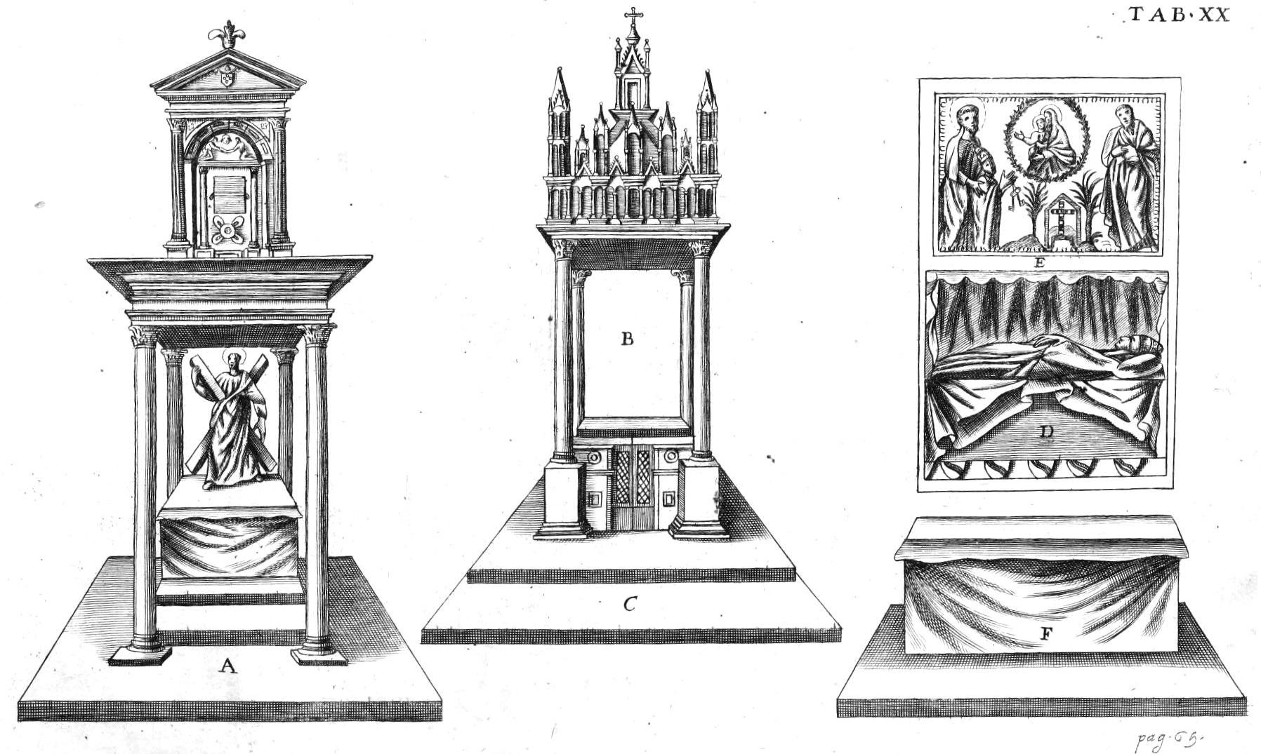 Engravings of (old) Saint Peter's Basilica in Rome.